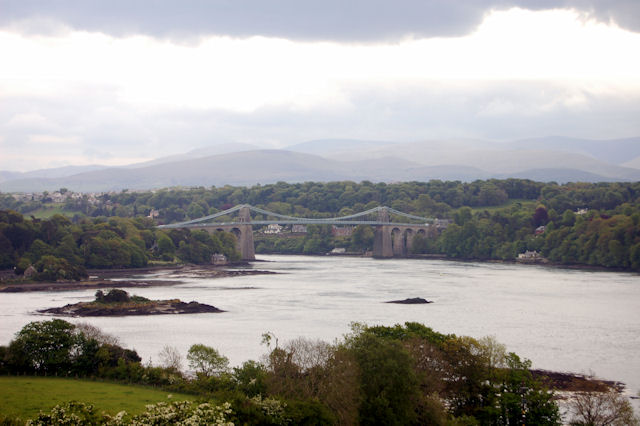 Shoreline of the Menai Strait from the A5 The suspension bridge lies in the background